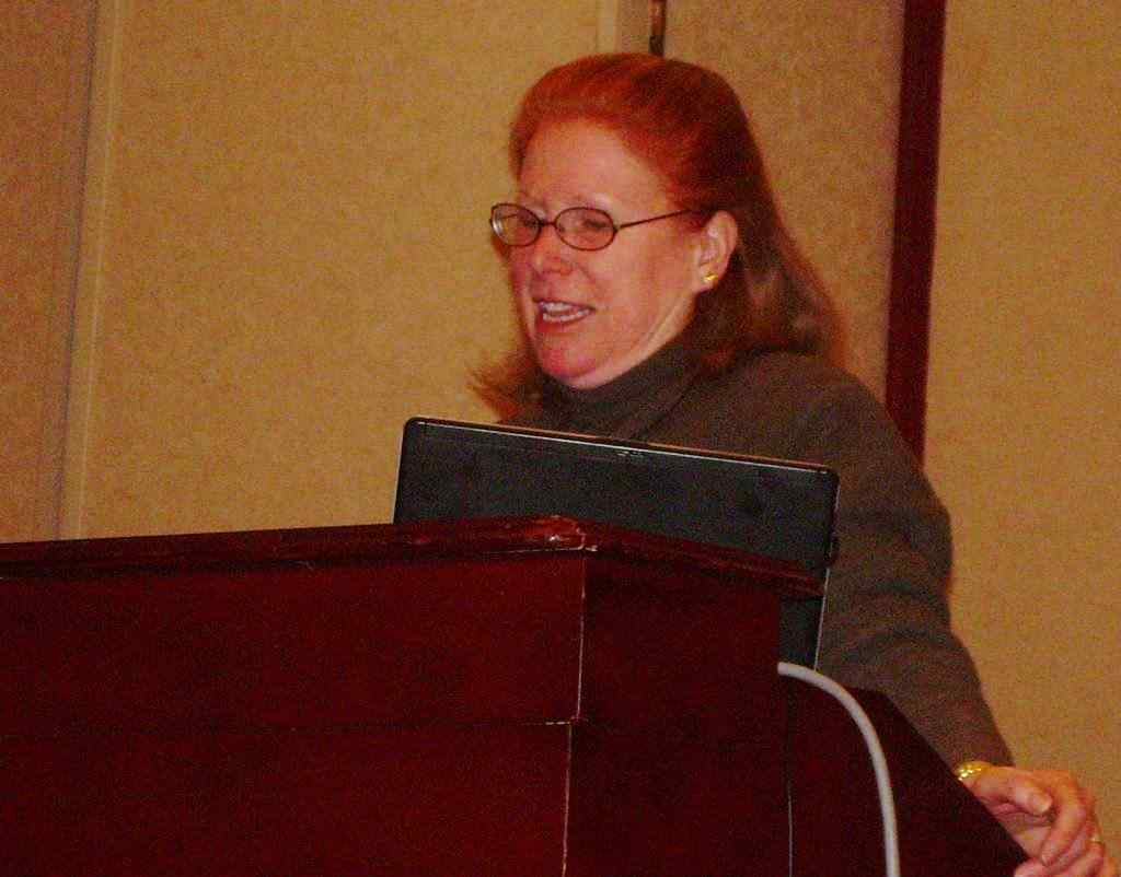 Adele Goldberg speaking at PyCon 2007.